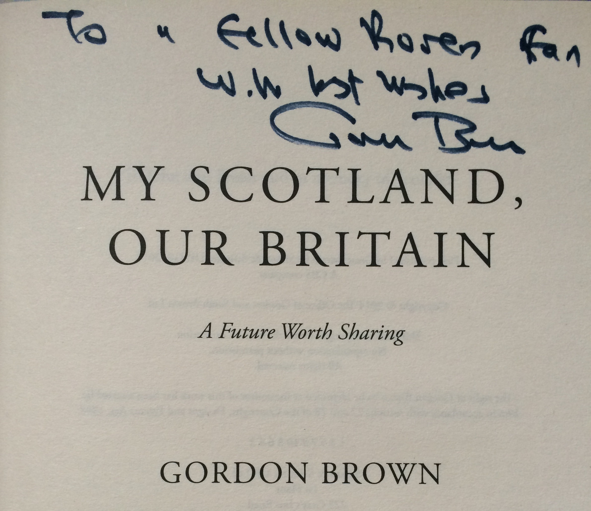 Gordon Brown Autograph